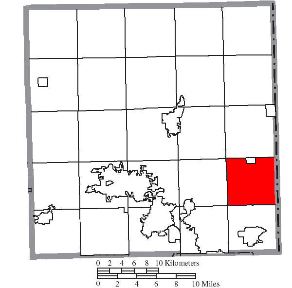 Map of the municipal and township boundaries of Trumbull County, Ohio, United States, as of the 2000 census, with the location of Brookfield Township highlighted. Township borders are shown only in unincorporated areas in order to differentiate incorporated and unincorporated areas more clearly.